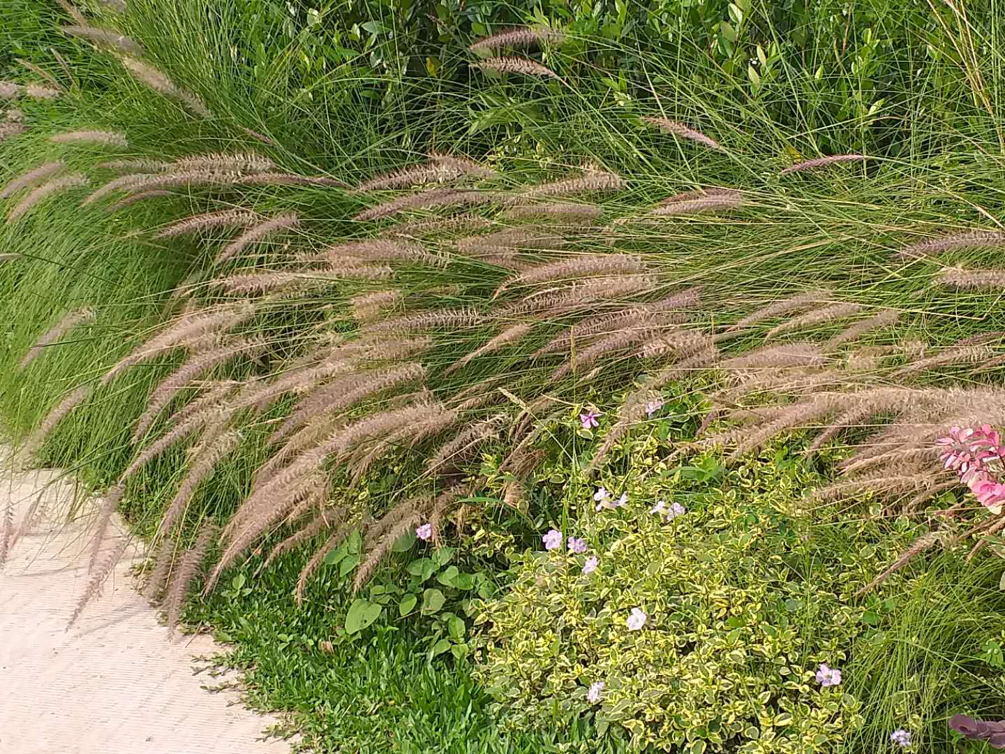 Pennisetum alopecuroides, 2018 Taichung World Flora Exposition